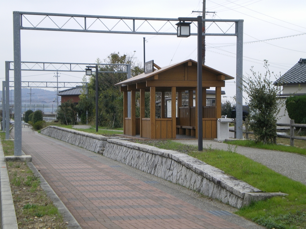 Nagoya Railroad Koromo Line Togari (Abandoned) Station trace